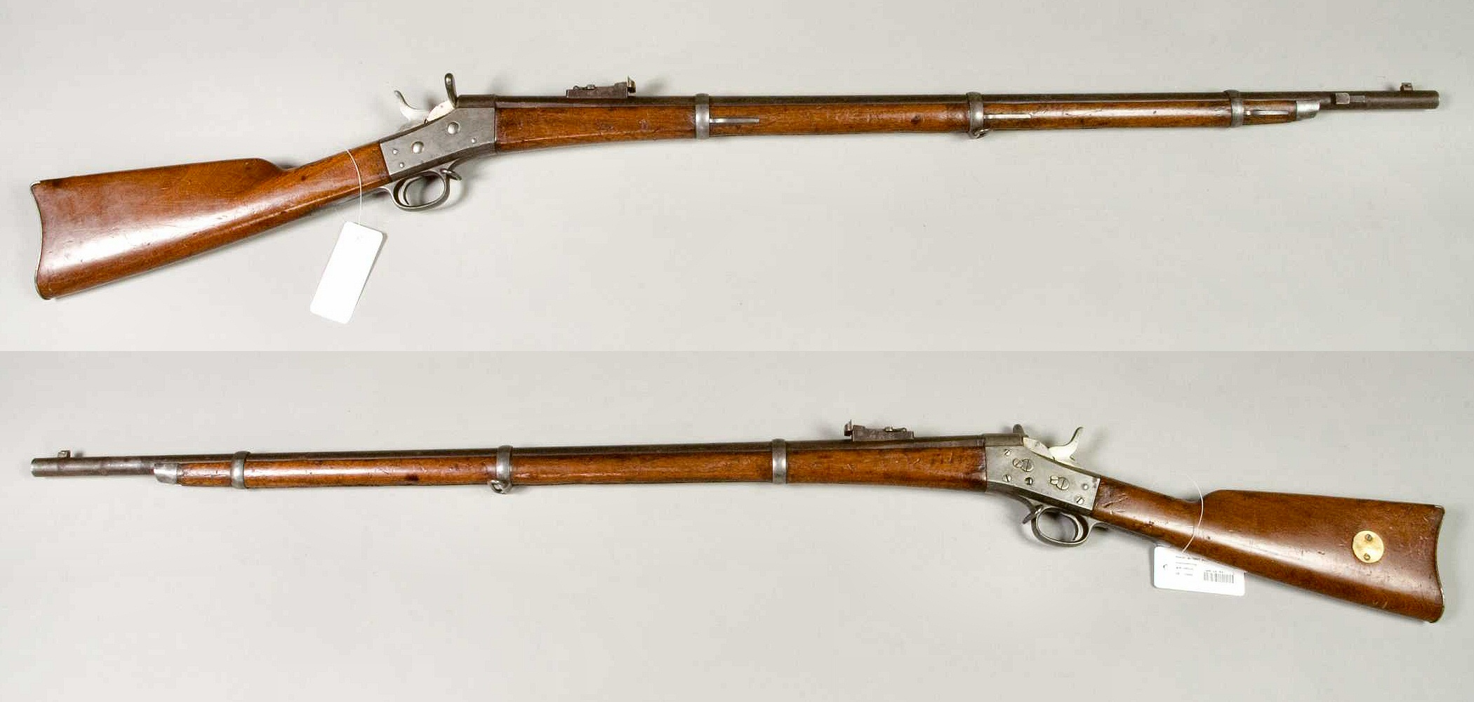 Swedish rifle m/1867, Remington rolling block. Made by Carl Gustafs Stads Gevärsfaktori (a Swedish state arsenal), Eskilstuna, Sweden. From the collection of Armémuseum (The Swedish Army Museum), Stockholm.